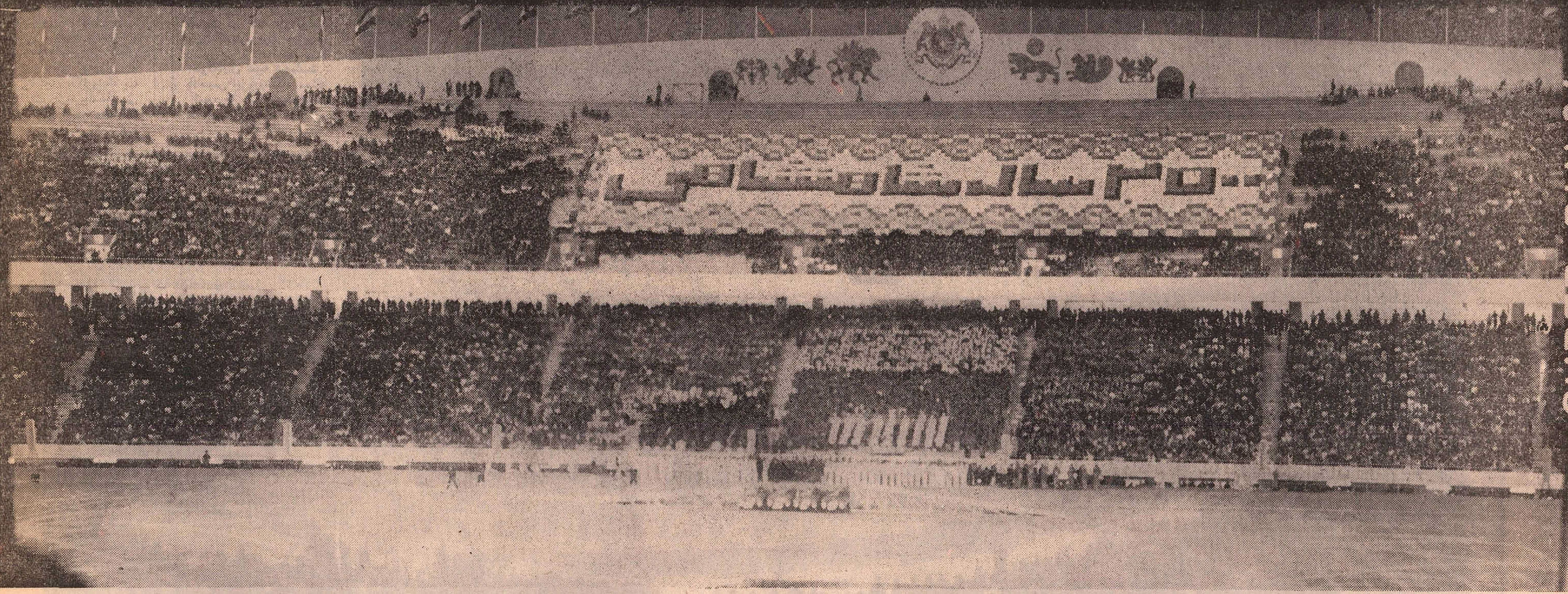 Inauguration Aryamehr Stadium (now Azadi Stadium) as part of 2,500 year celebration of the Persian Empire